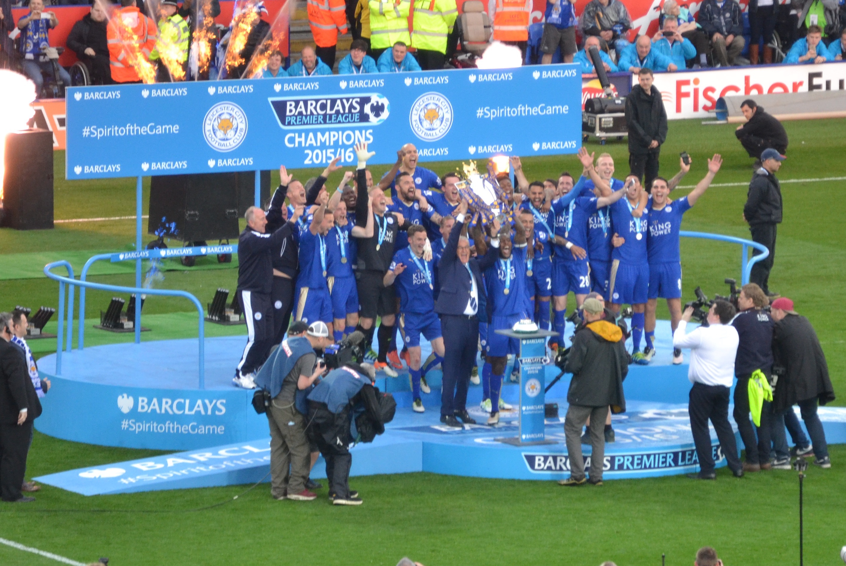 LCFC lift the Premier League Trophy